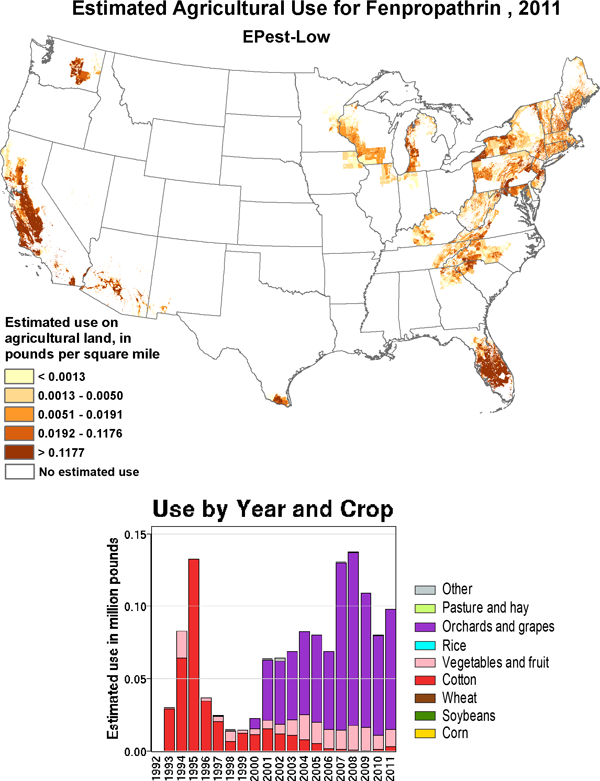 Fenpropathrin map of use, USA, 1992 (estimated)